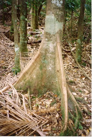 Young buttressed tree at Minyon Falls, Nightcap National Park, most probably Endiandra discolor